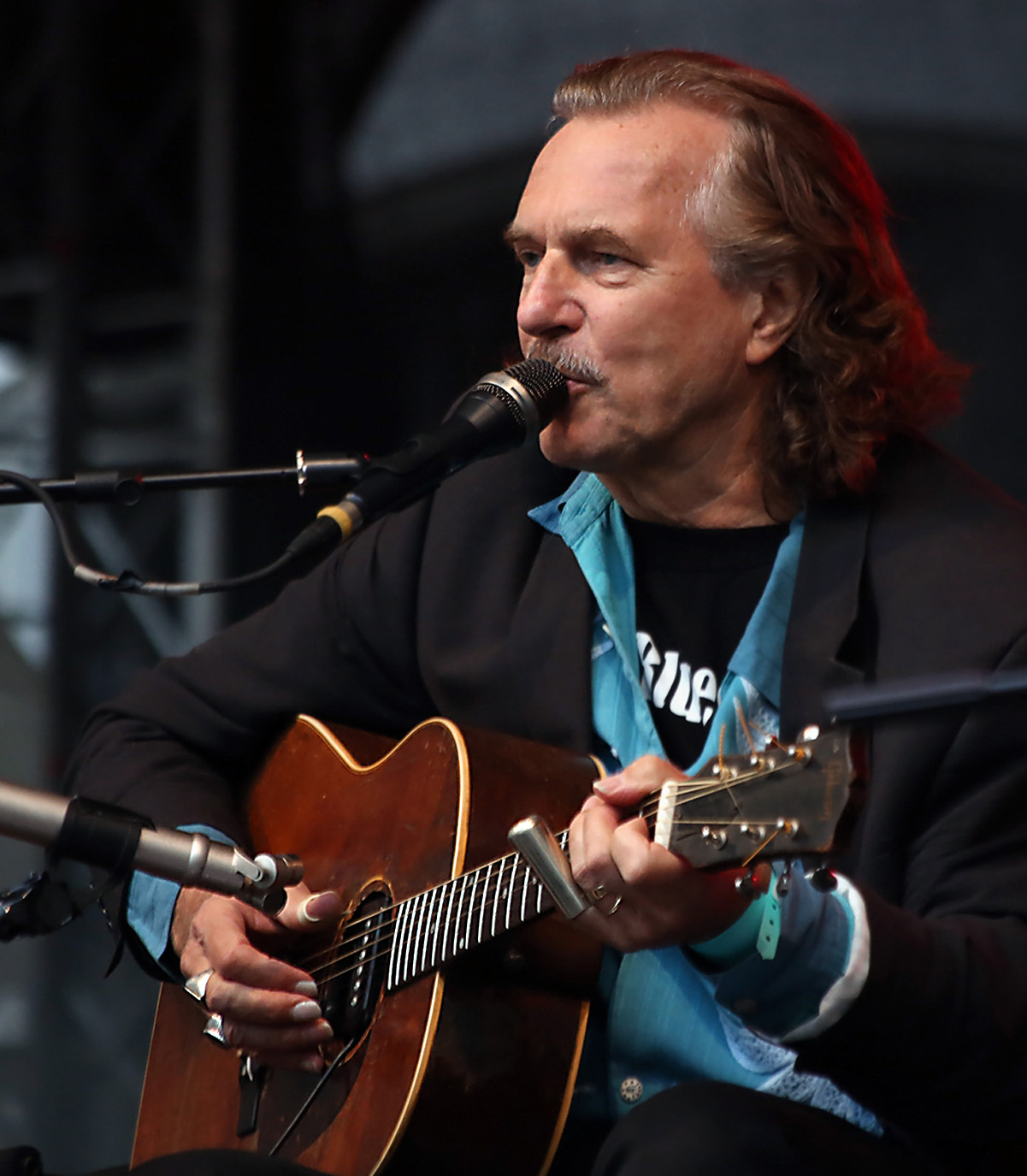 Hans Theessink Band - Hans Theessink (git, voc), Insingizi (voc, perc), Roland Guggenbichler (keys) - concert on Michaelerplatz during Wiener Stadtfest (Vienna City Festival) 2014 (Vienna, Austria).